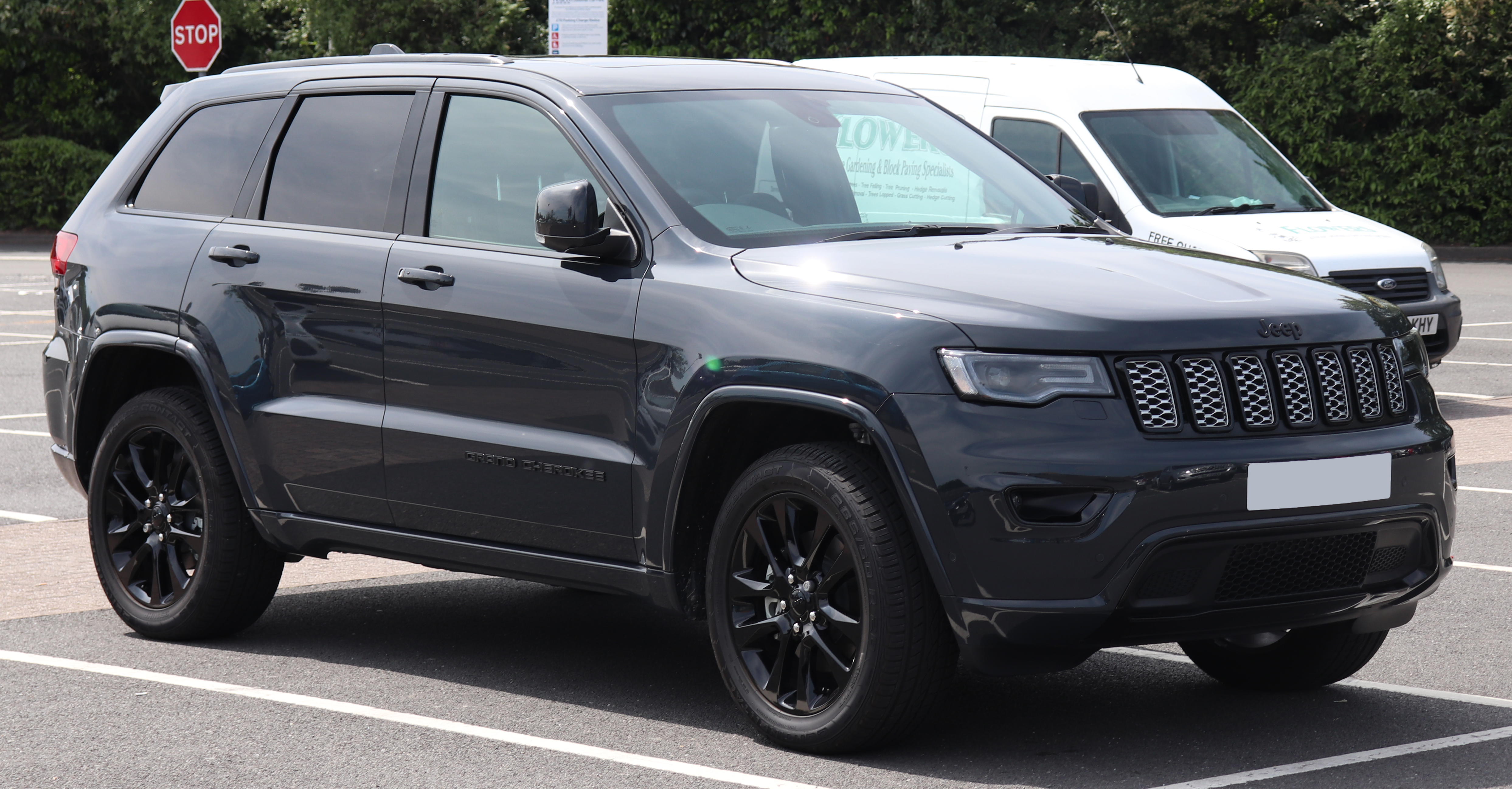 2018 Jeep Grand Cherokee Night Eagle 3.0 Front Taken in Solihull